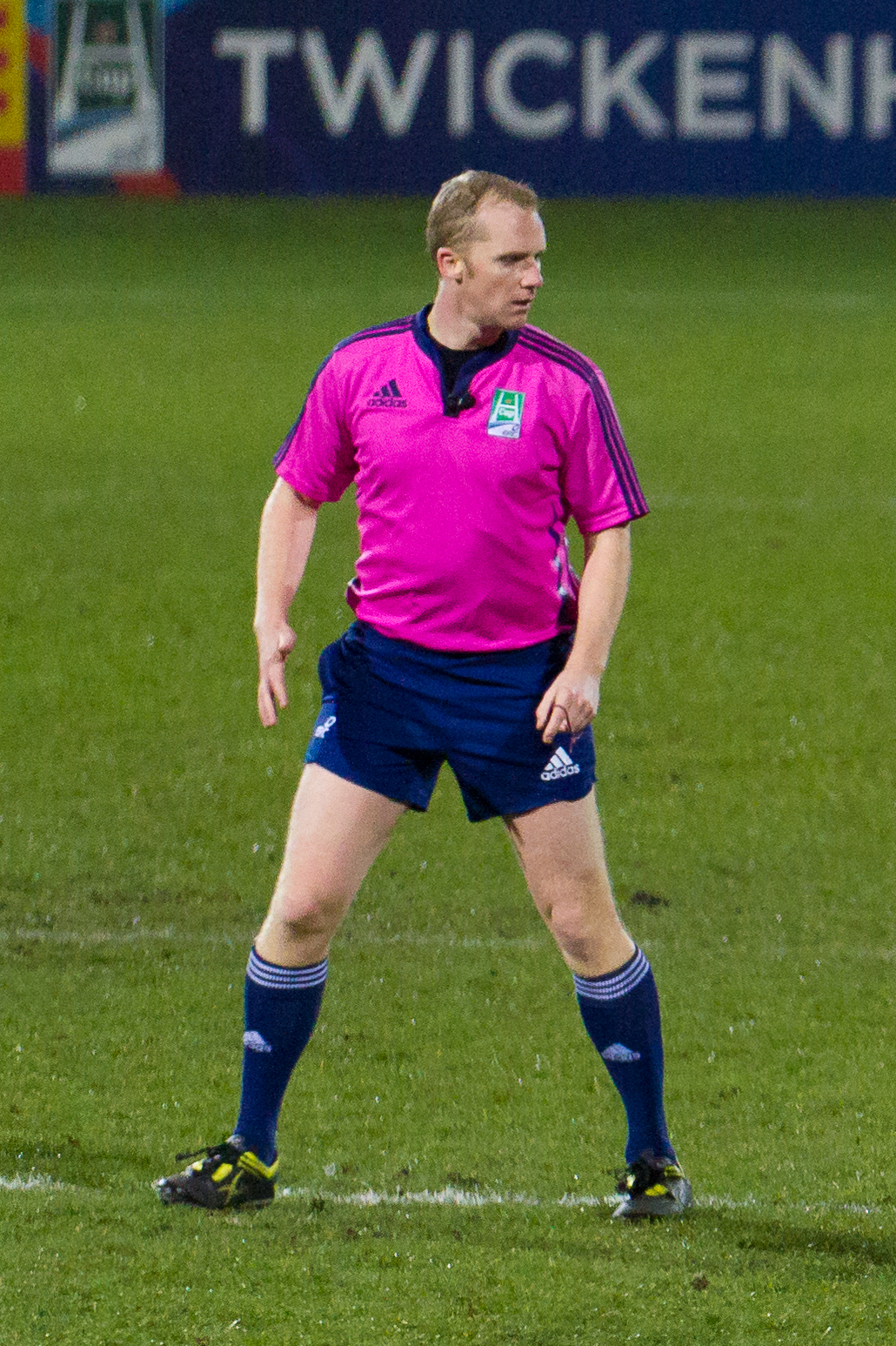 Wayne Barnes Heineken Cup 2011-2012 — 14 January 2012, Stade Ernest-Wallon. Match between: Stade toulousain — Connacht Rugby